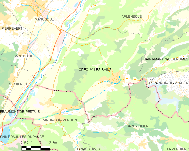 Map commune FR insee code 04094.png Légende